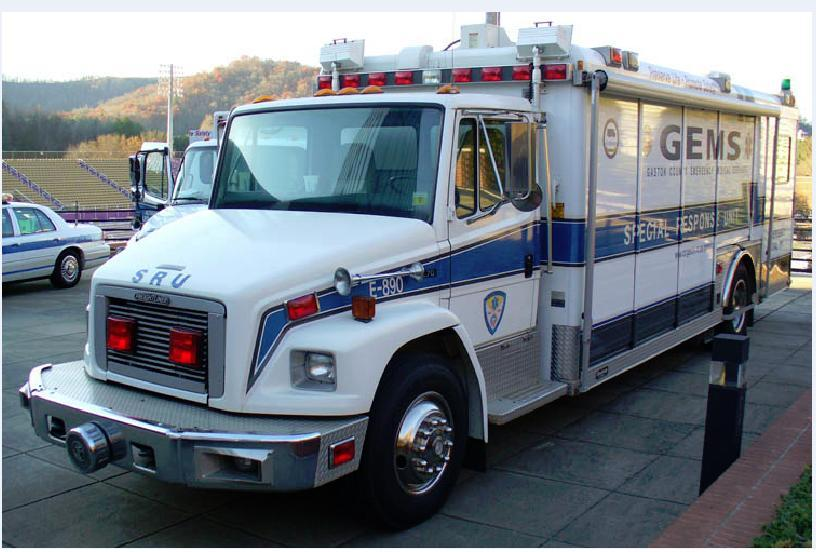 GEMS SRU